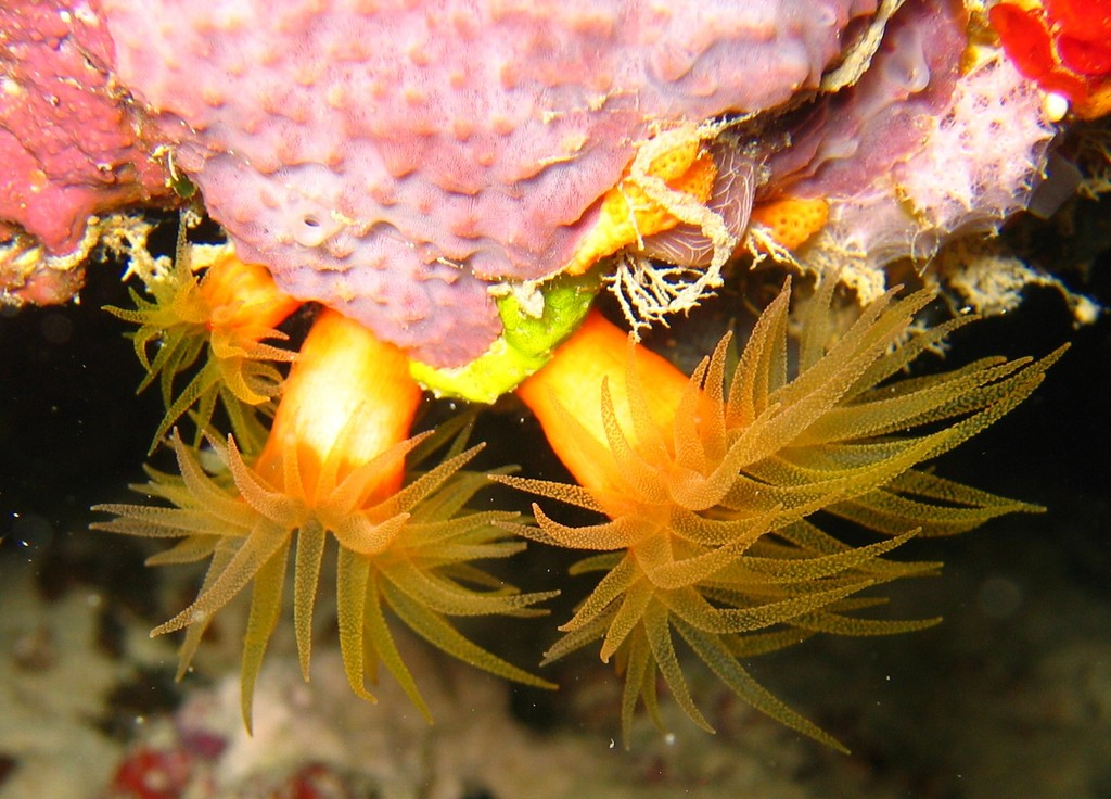 Orange Sun Coral (Tubastrea faulkneri). Steve's Bommie, Ribbon Reefs, Great Barrier Reef